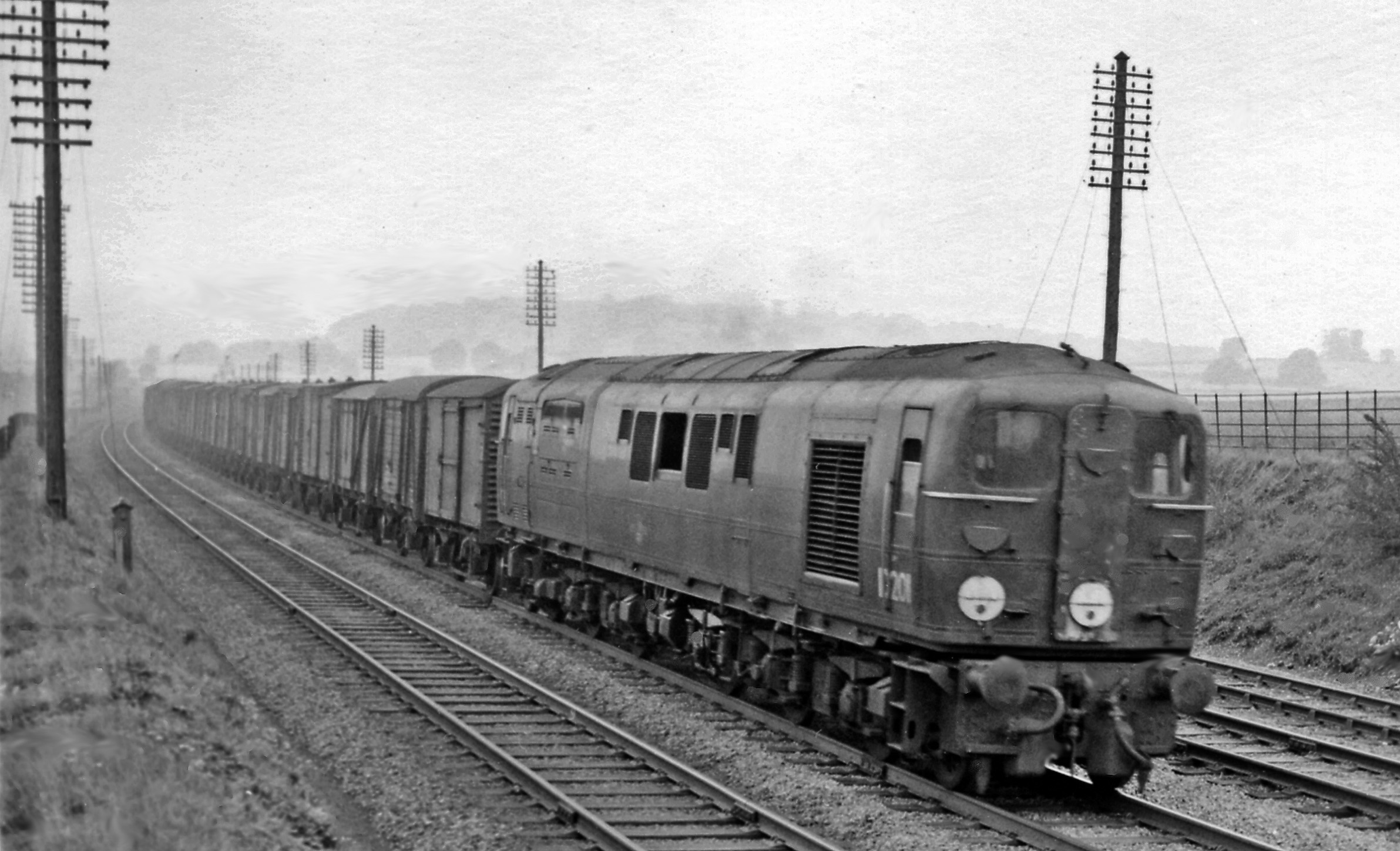 Up Class C fitted freight south Tring with the pioneer SR Diesel. View NW, towards London on the Up WCML Fast line. The locomotive is the first (built 1947) of the three Bulleid/English-Electric 2,000 hp 1-Co-Co-1 Diesel-Electrics, No. 10201. (See also TQ0562 : Pioneer SR Diesel on the Down 'Royal Wessex' express at West Weybridge and SP8240 : Pioneer SR Diesel on Up express near Wolverton).